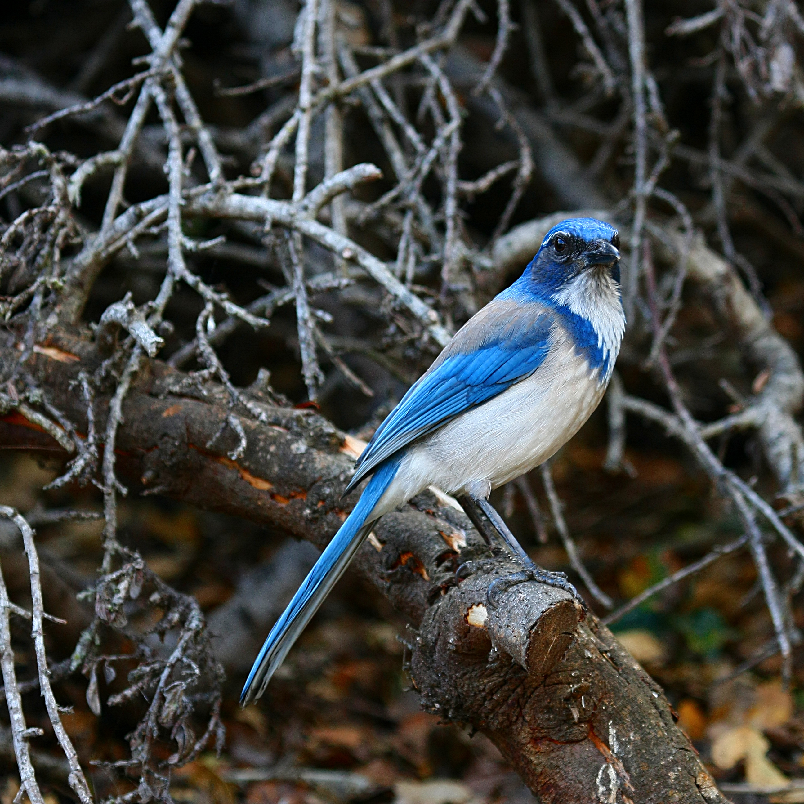 Never seen one of these before either. Another first! This fellow just flew right up beside me while I was taking another picture and asked me to take it's portrait as well. I obliged.